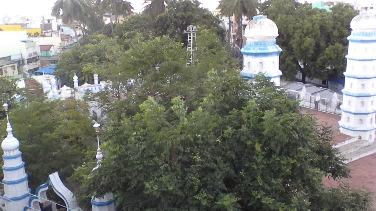 Aerial view of Sungam Mosque, Madurai.